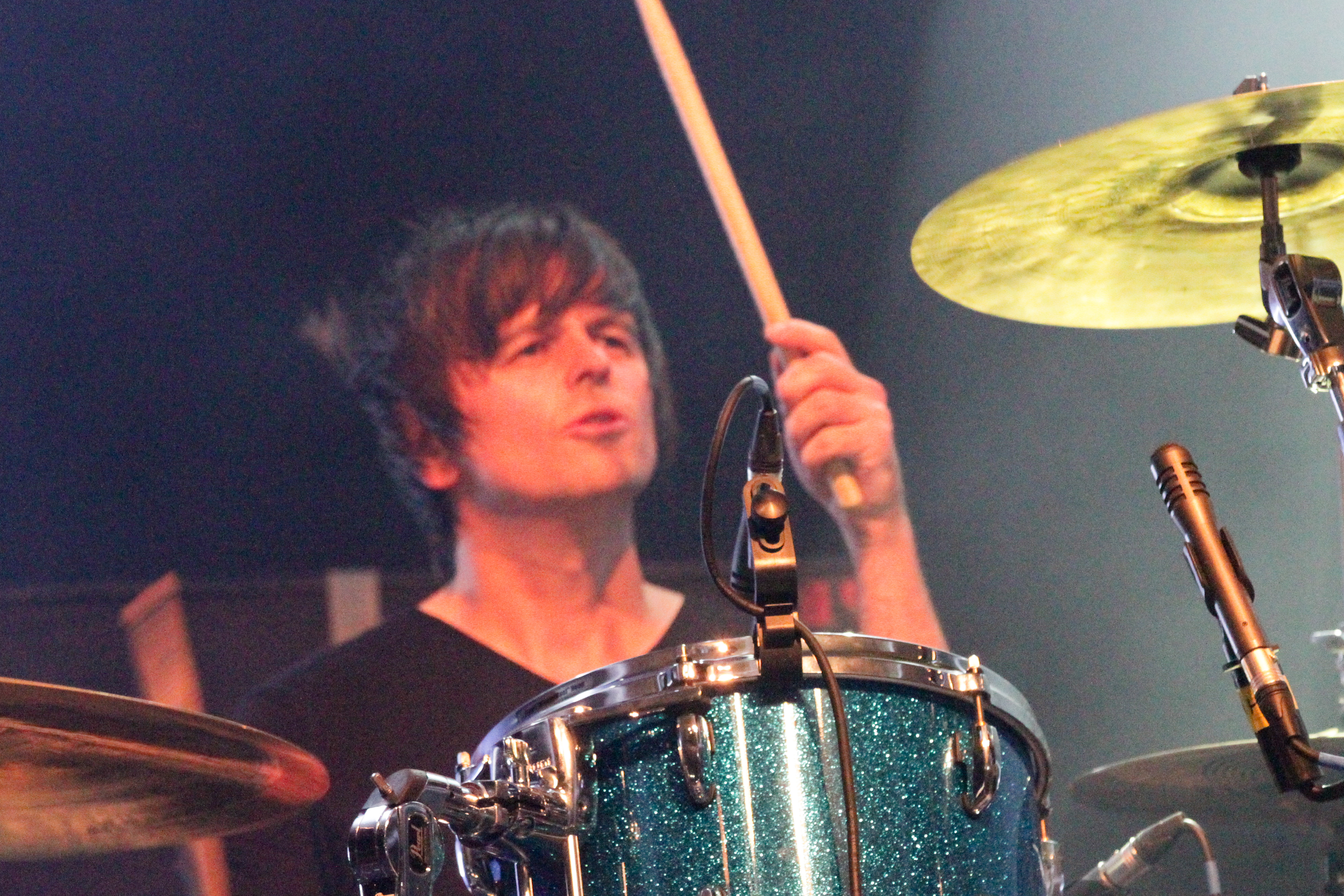 Slowdive at the Wave-Gotik-Treffen 2014.